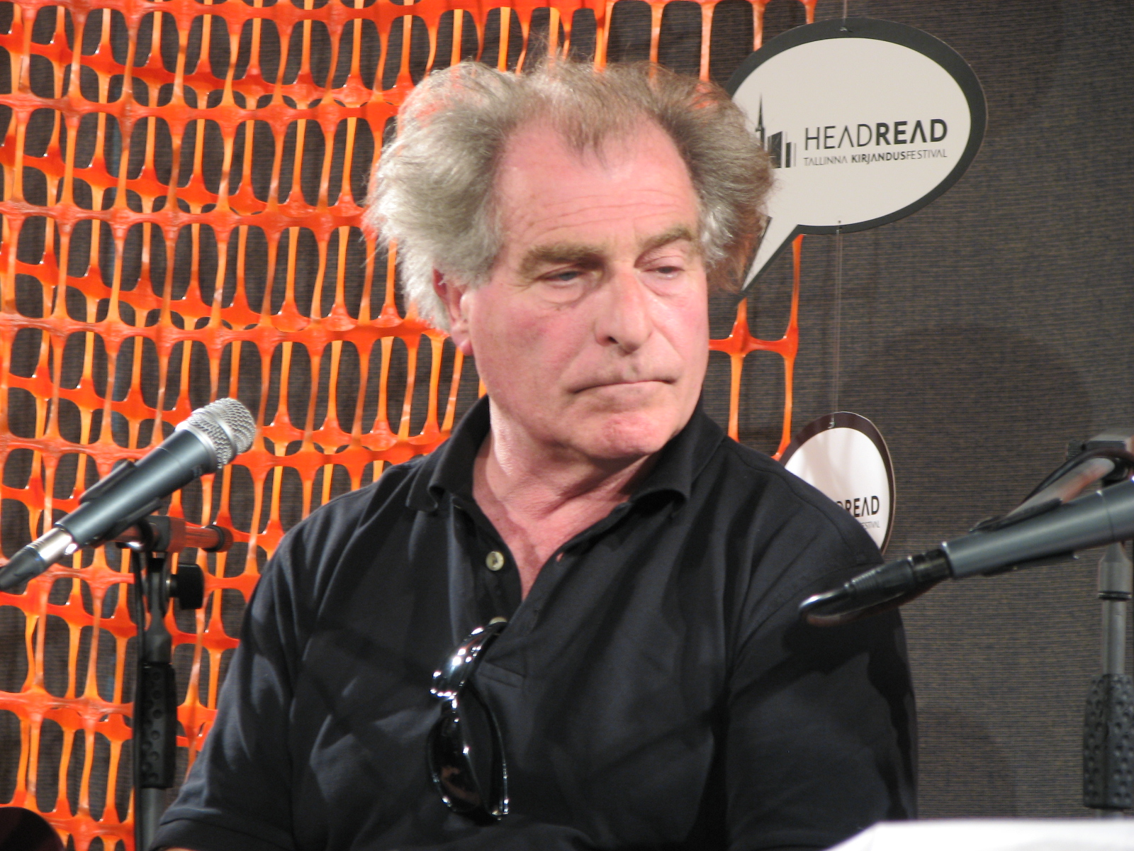 Sylvestre Clancier performing in literature festival HeadRead